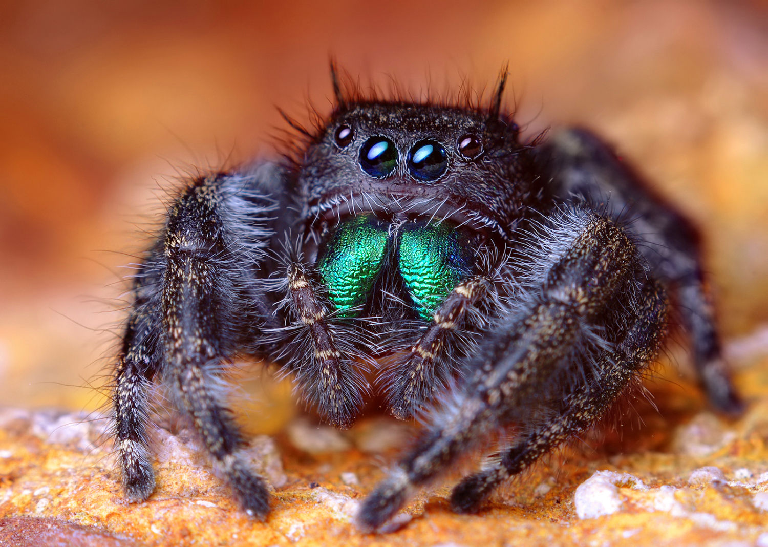 First jumping spider photo with the new Pentax K200D! Click here to watch a video of this spider. (Make sure to watch it in "High Quality" if you can) There is this one light fixture I always check when I come home hoping to find a jumping spider, as there is a little spider nest up inside the lid. This morning, to my delight, I saw the front legs of a Phidippus sticking out when I checked! I carefully coaxed her out of her home without damaging the it (or more importantly, her) and preceded to photograph her with my new camera and take a short video (with a little Canon point and shoot camera). When I was finished, I placed her back in the fixture, and she promptly returned to her little shelter. This may not be the best introduction to my new camera (this is a pretty close crop and was taken at f/16 with the 50mm reversed to some extension tubes), but rest assured the quality is quite a step up from my previous camera, and there will me much better photos to come! This was taken at about 1:1 (?). My previous camera was a Pentax *ist DL, and I was pretty rough with it (over the last three summers it had to endure quite a bit of sweat, I dropped it several times, used it in harsh conditions, etc...). It was starting to become outdated, not to mention the pop-up flash was blown, the grip was coming away from the body, and the delete button shorted out due to all that sweat. (P.S. - The exif data is incorrect, this was not taken at 65mm... I accidentally told the camera that and have not changed it yet. Everything else in the exif data is correct though.)